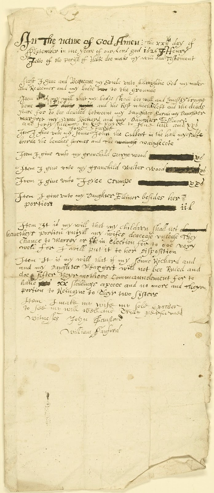 Will of Henrie Anthonie Jetto, the first black british person to leave an extant will